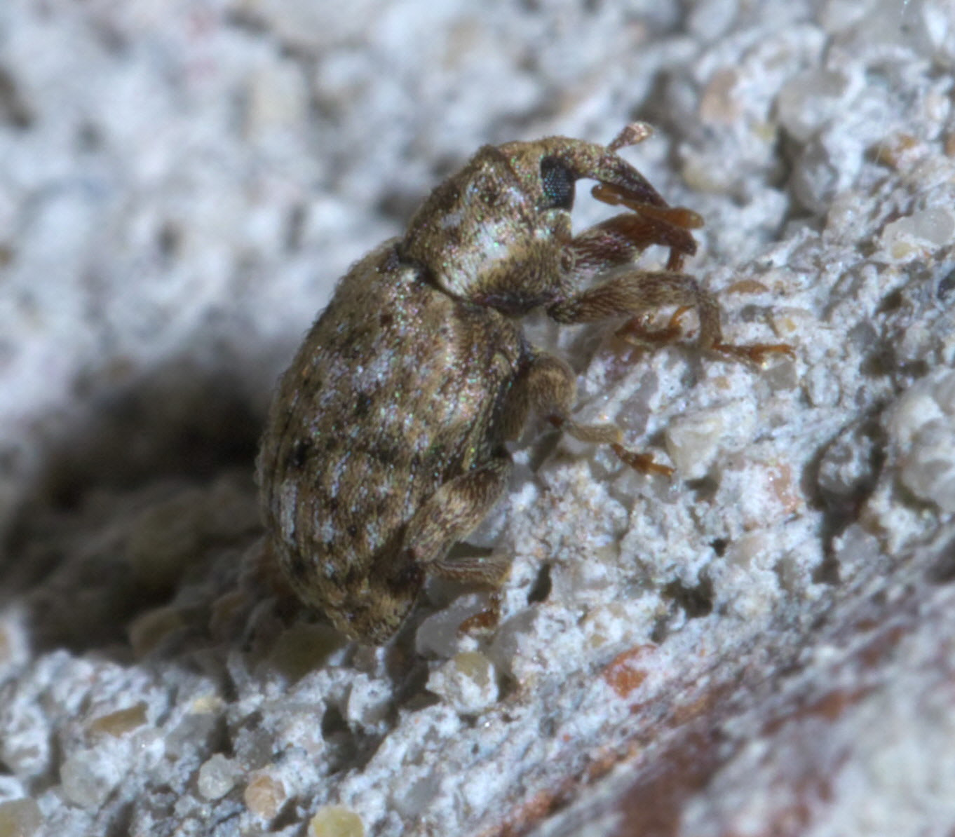 Conotrachelus recessus, Family: Snout and Bark Beetles, Size: 2.9 mm, ID Confidence: 98